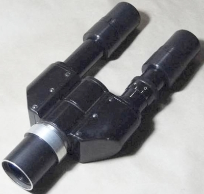 Binoviewer for telescopes.